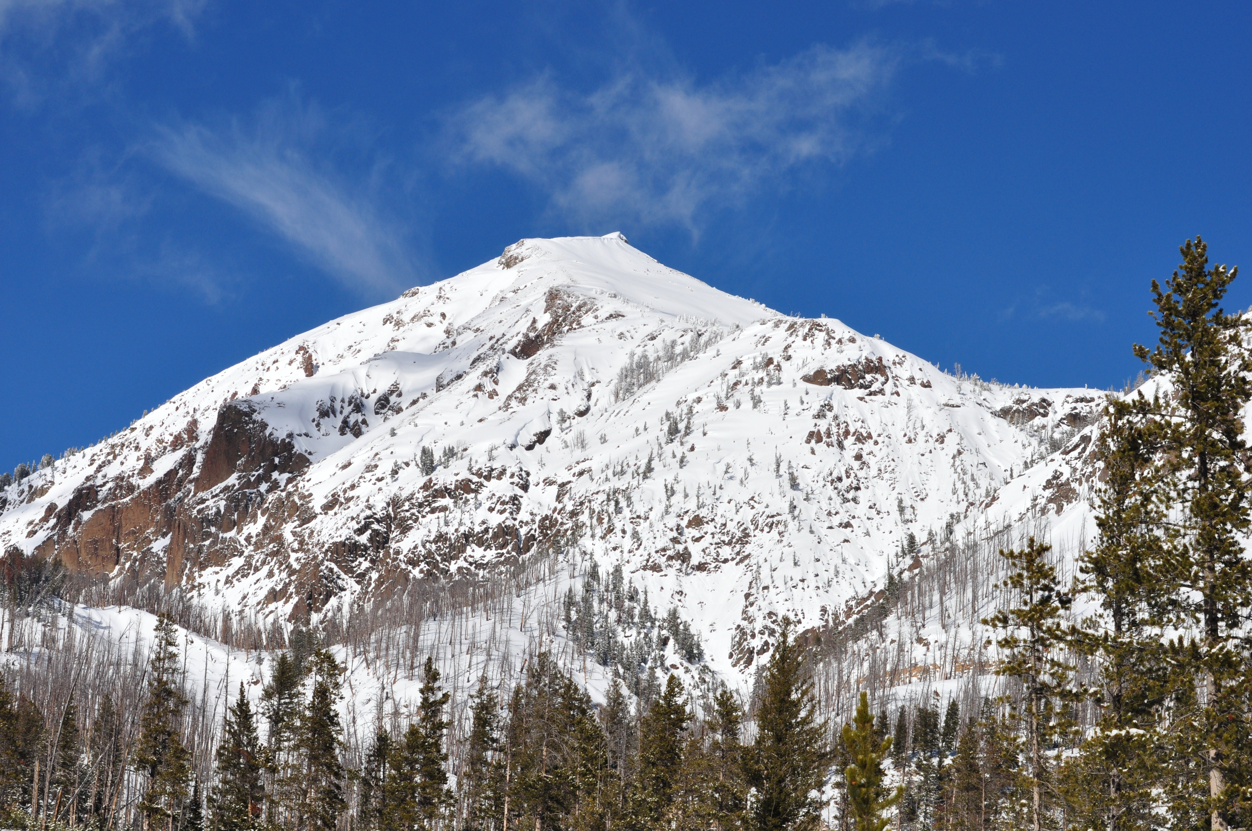 Meridan Peak, Yellowstone National Park, Montana, January 2010